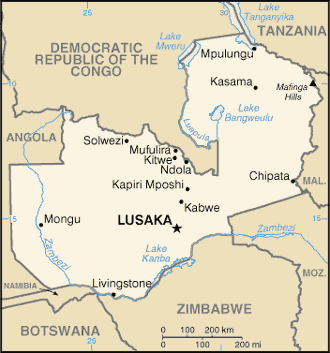 Map of Zambia, showing major towns.